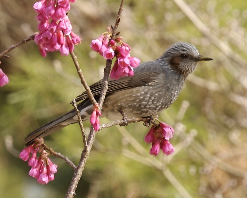 Brown-eared Bulbul and blossoms Ixos amaurotis squamiceps Kyoto, Japan 20th. March 2007